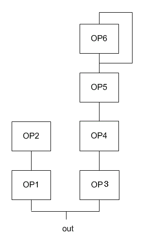 Frequency modulation synthesis - algo # 1